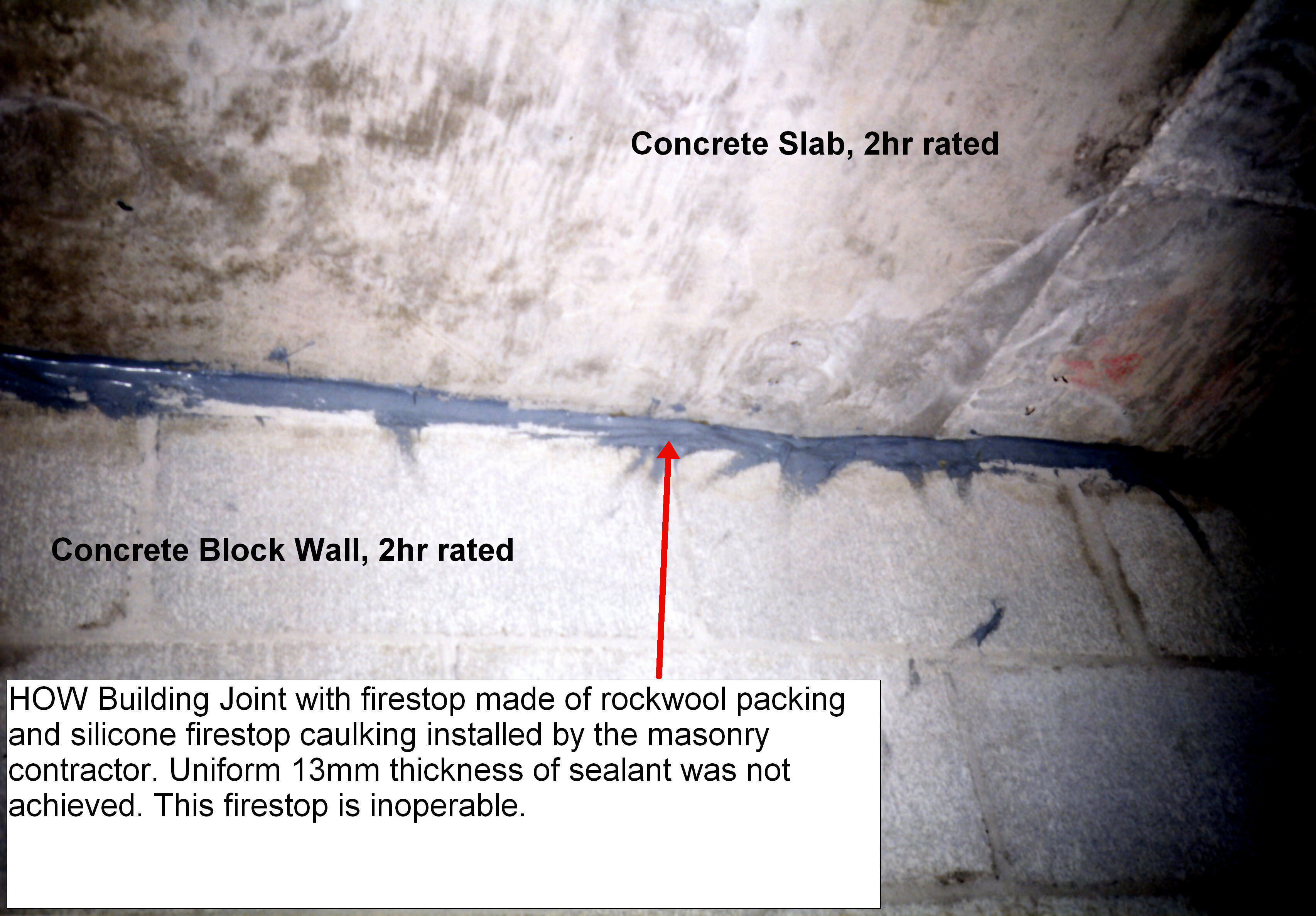 HOW Joint with uneven silicone firestop caulking thickness, smeared into place by untrained staff. Status: inoperable.